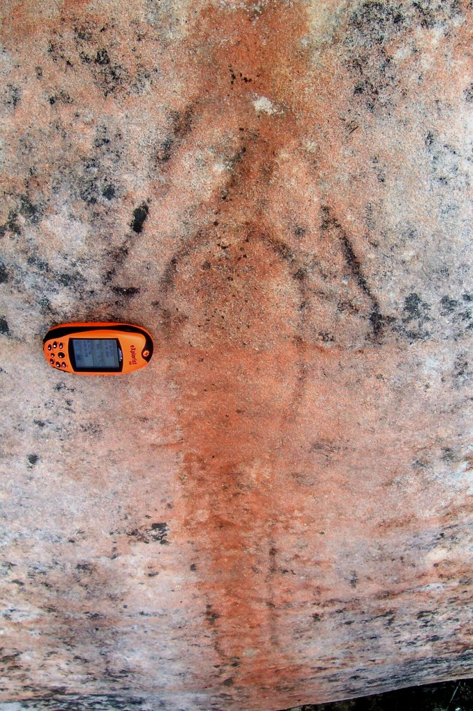 Ku-ring-gai_Chase_-_ (phallic) petroglyph & Global Positioning System